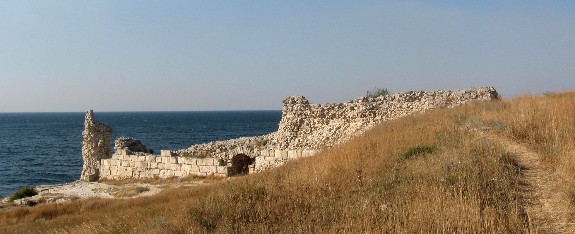 Western gate, ruins, Khersones, Sevastopol